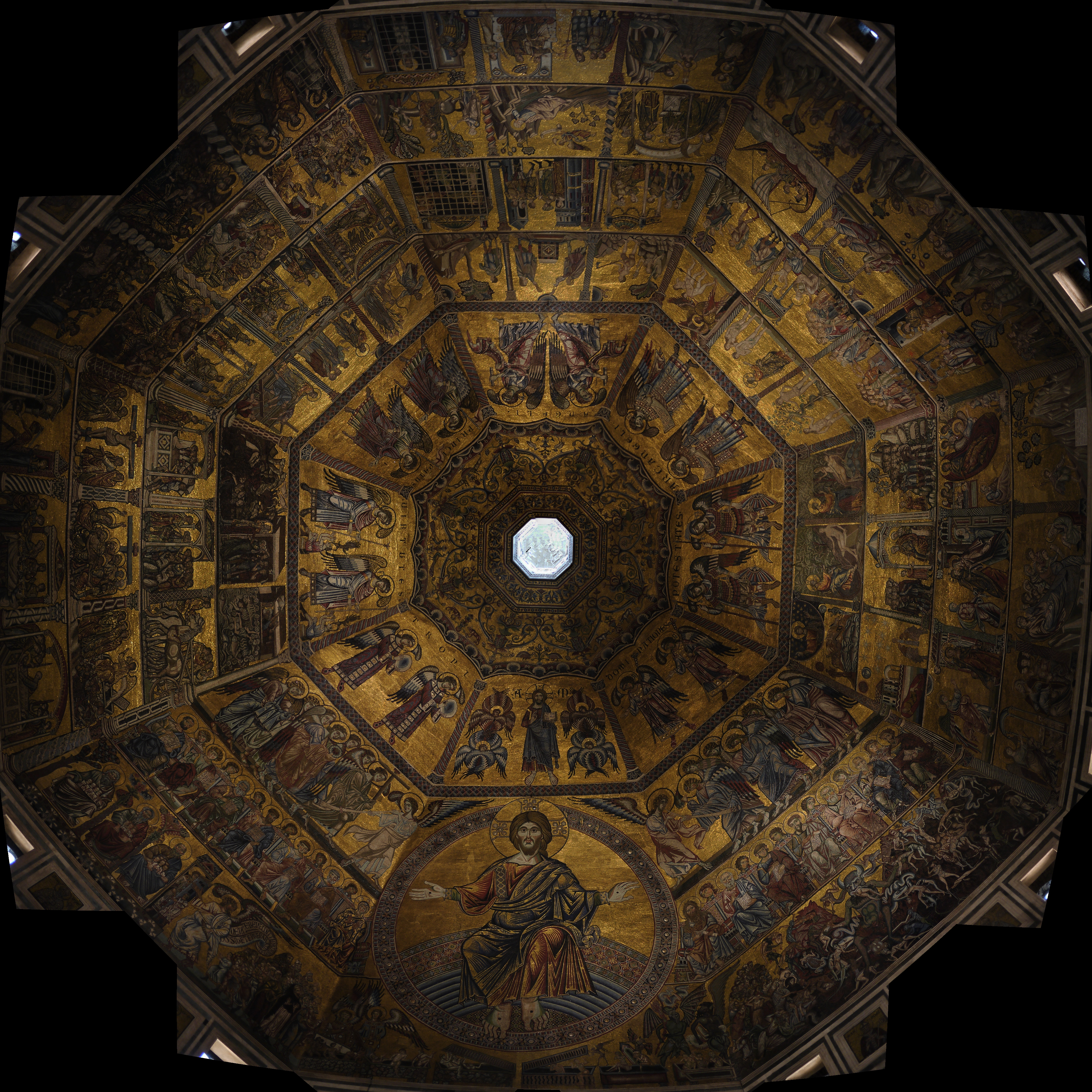 The whole mosaic of the ceiling in the Florence baptistery. It is a composite image of all 8 panels.